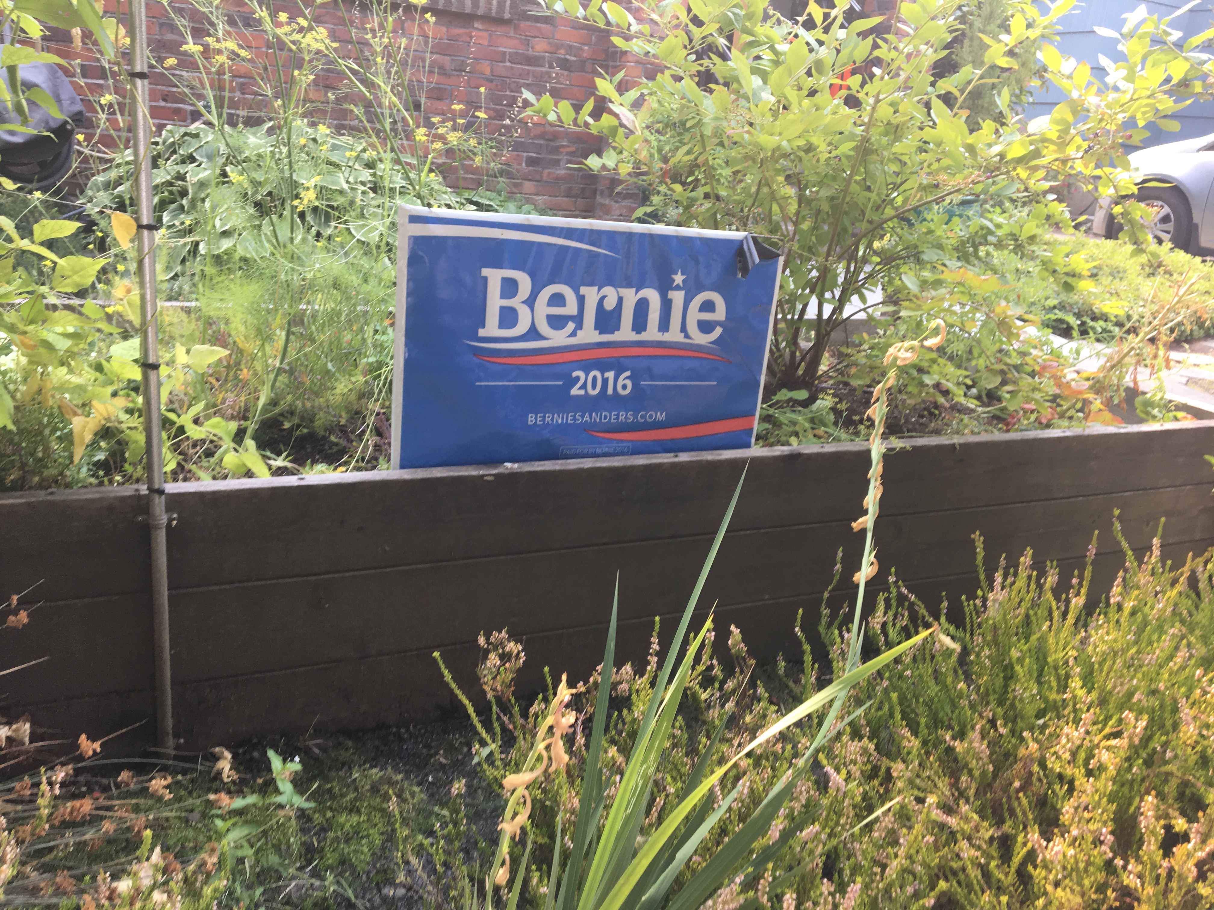 Bernie Sanders campaign lawn sign in Portland, Oregon.